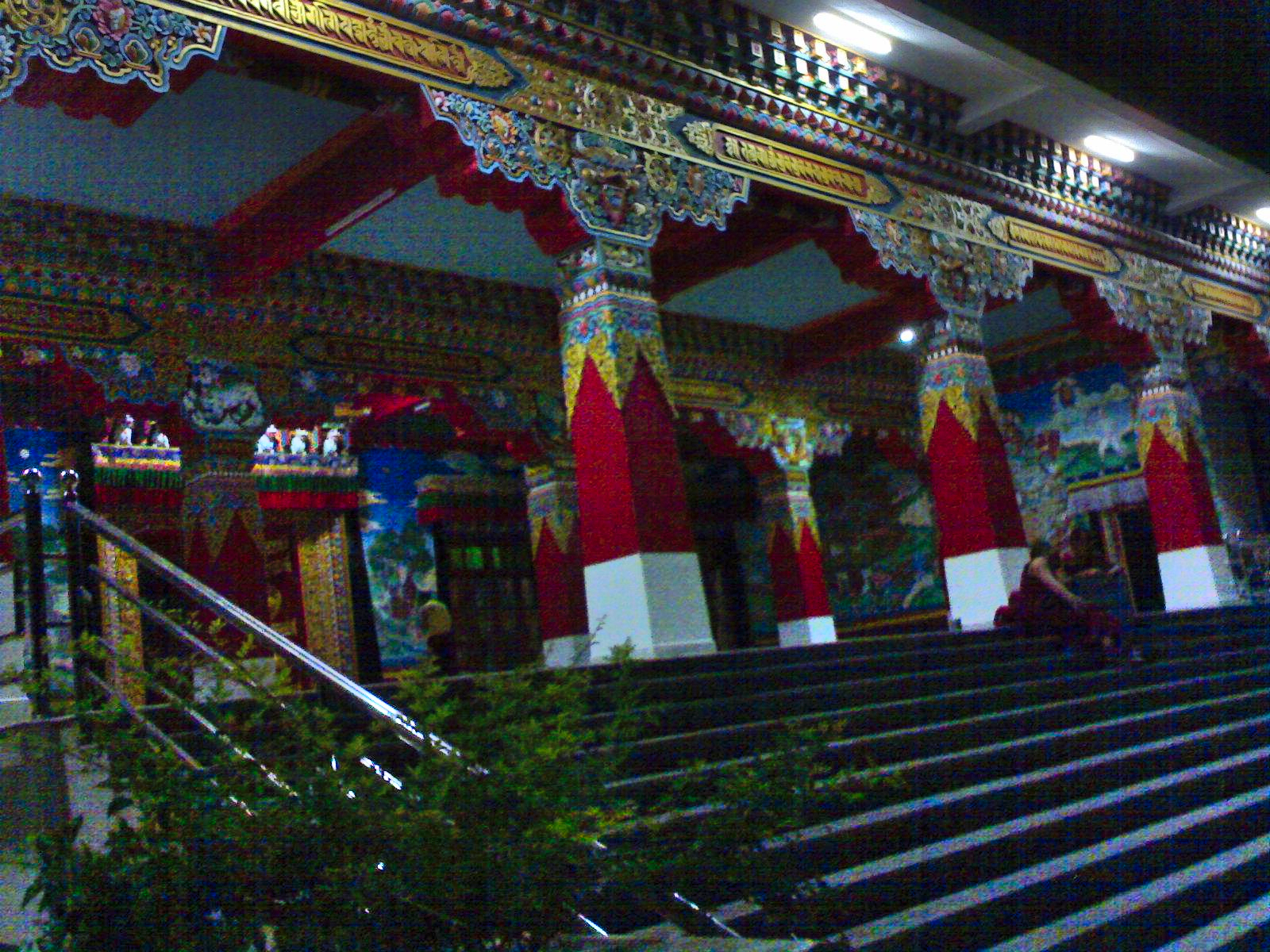 Tibetan colony Mundgod, Karnataka Authour and Source : Karnataka (North), India